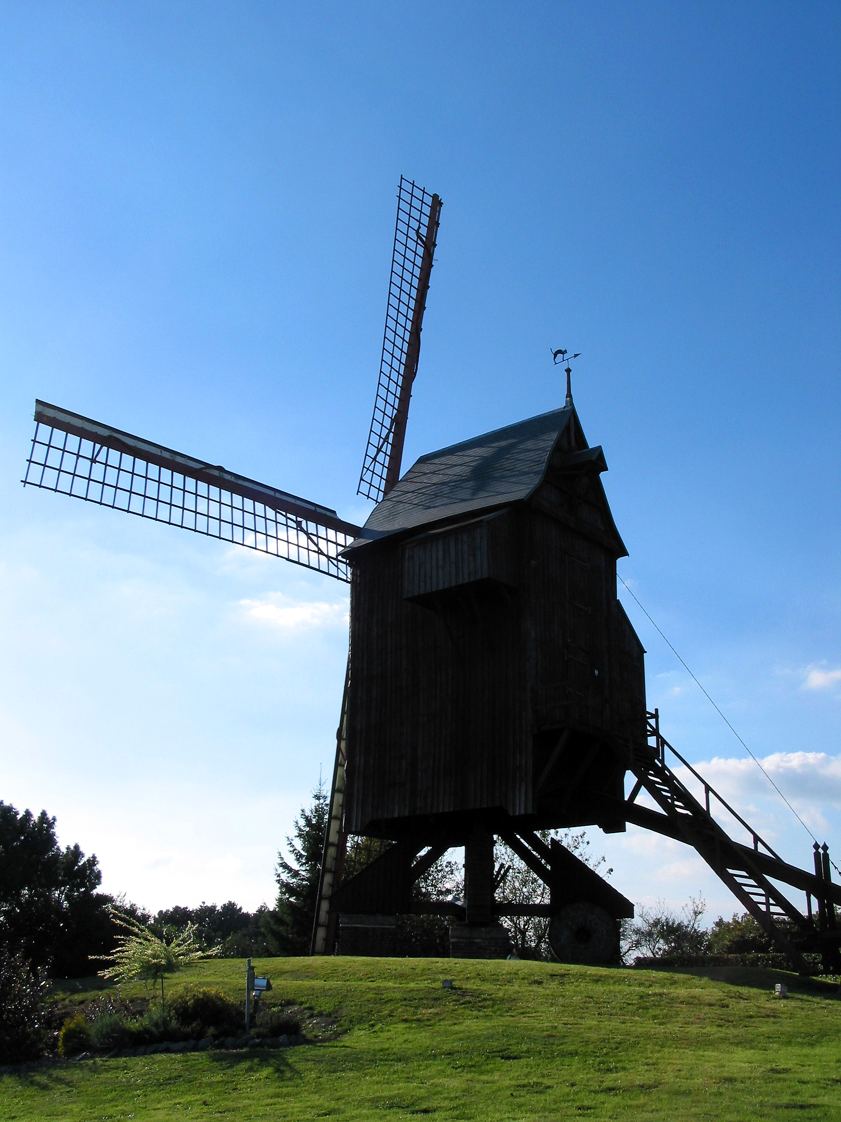 Ellezelles (Belgium), the "Wild cat" windmill (1751).